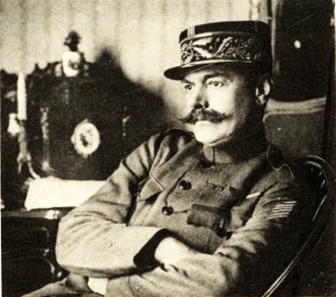 Joseph Barthélemy (1867-1951) French general, president of Interallied Mission to Poland January-March 1919